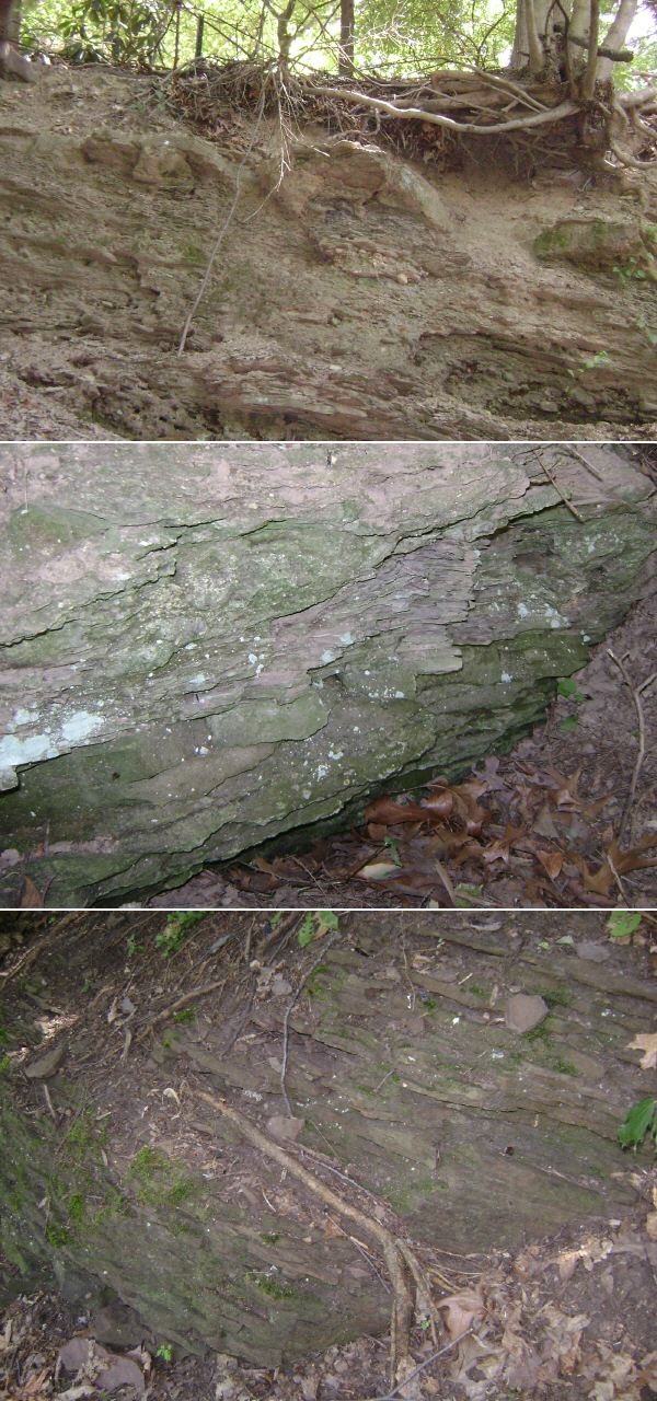 Various colors and textures of the Towaco Formation seen within a small area of Pines Lake in Wayne. Top: Grayish-white sandstone/siltstone, possibly carbonate bearingMiddle: Grayish-green sandstone/siltstone displaying laminationBottom: Brownish-red sandstone